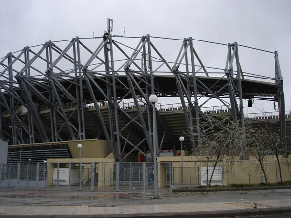 Pampeloponisiako Stadium in Greece.